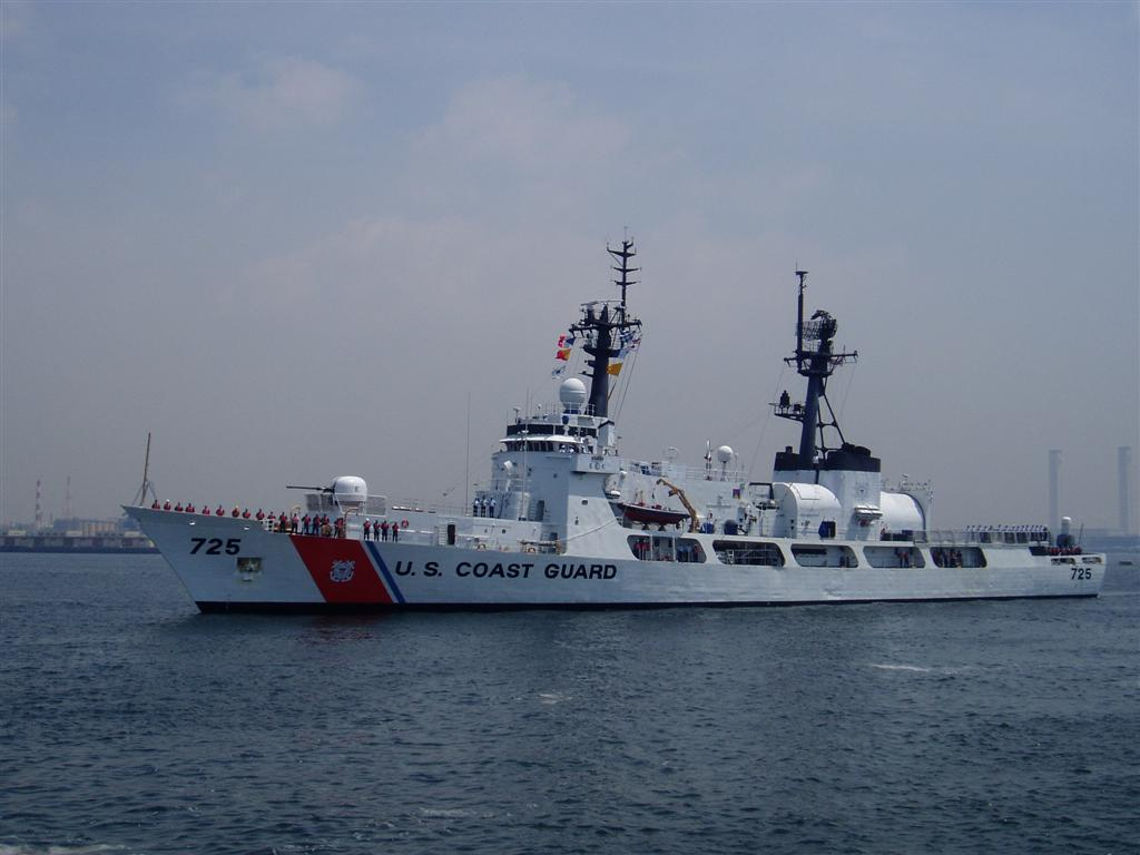 USCGC Jarvis (WHEC-725) participating in RIMPAC 2005.